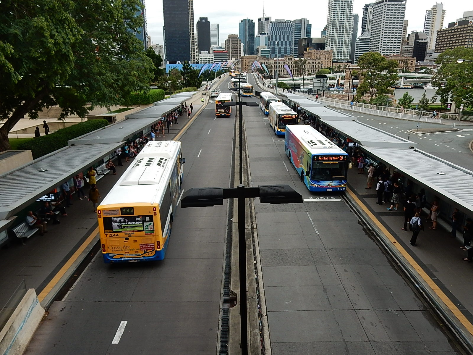 Bus Only Lanes